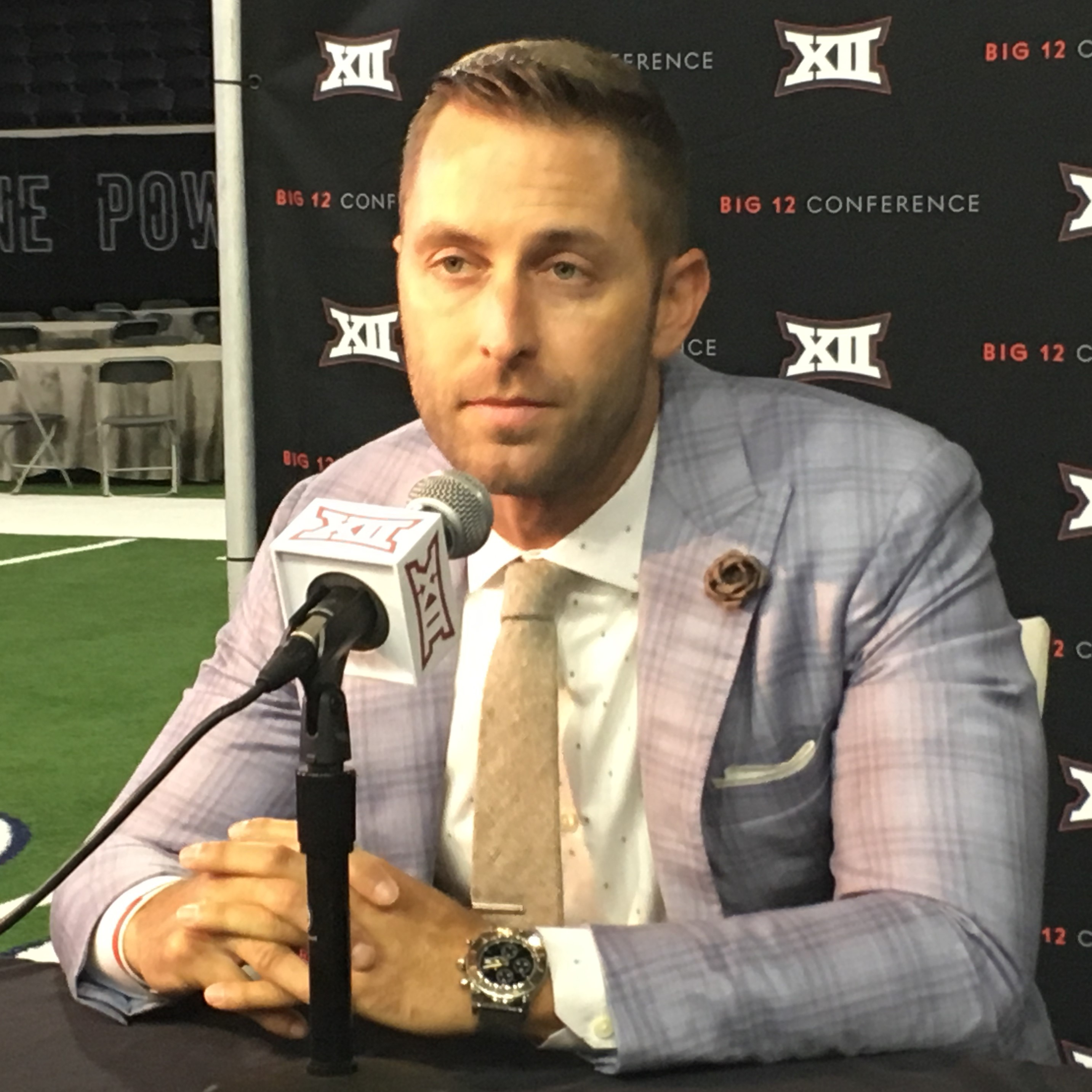 Kliff Kingsbury, head coach of the Texas Tech Red Raiders football team, at the 2017 Big 12 Conference Media Days in Frisco, Texas.